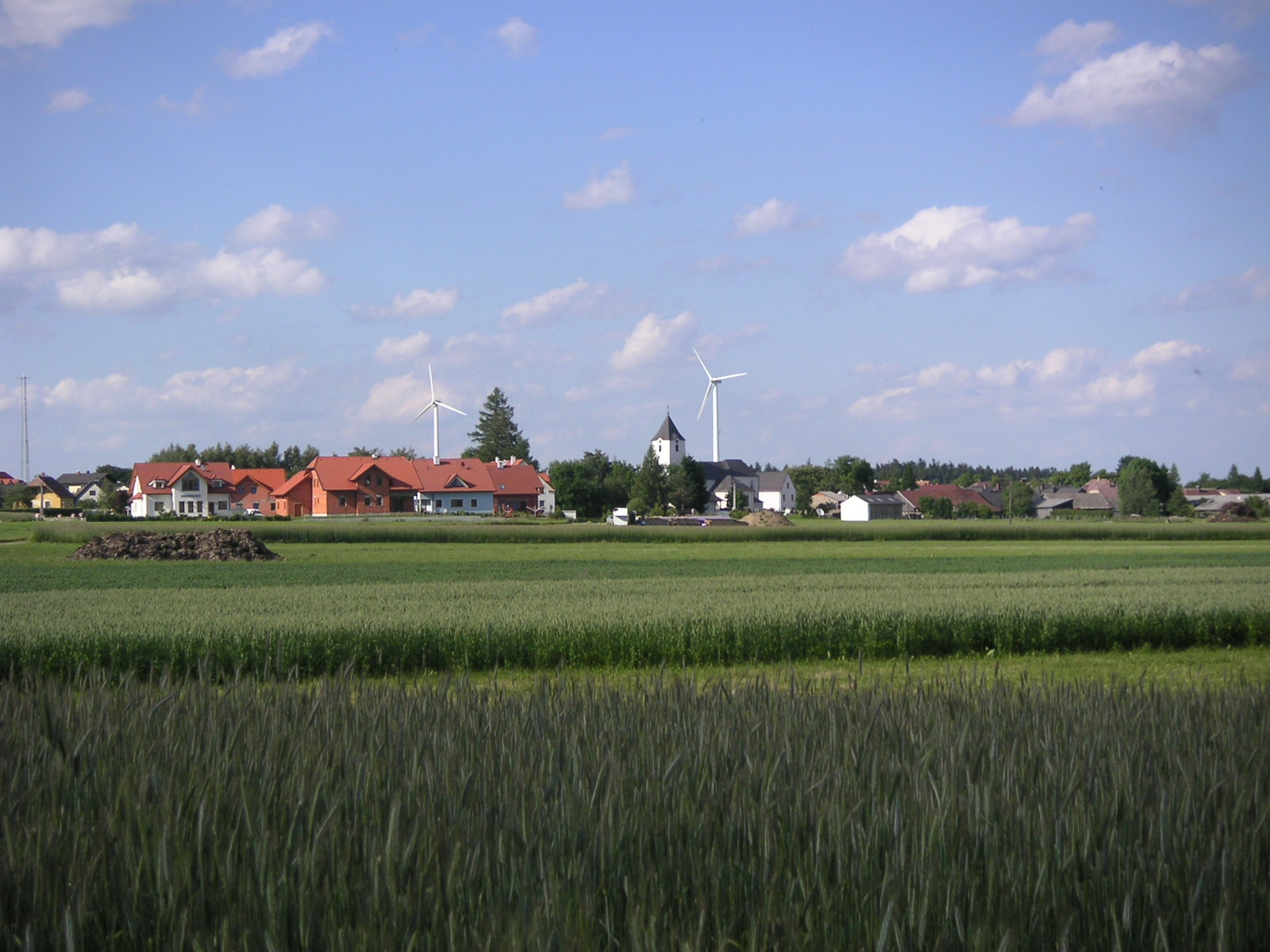 View on Grafenschlag, Lower Austria, from southwest direction